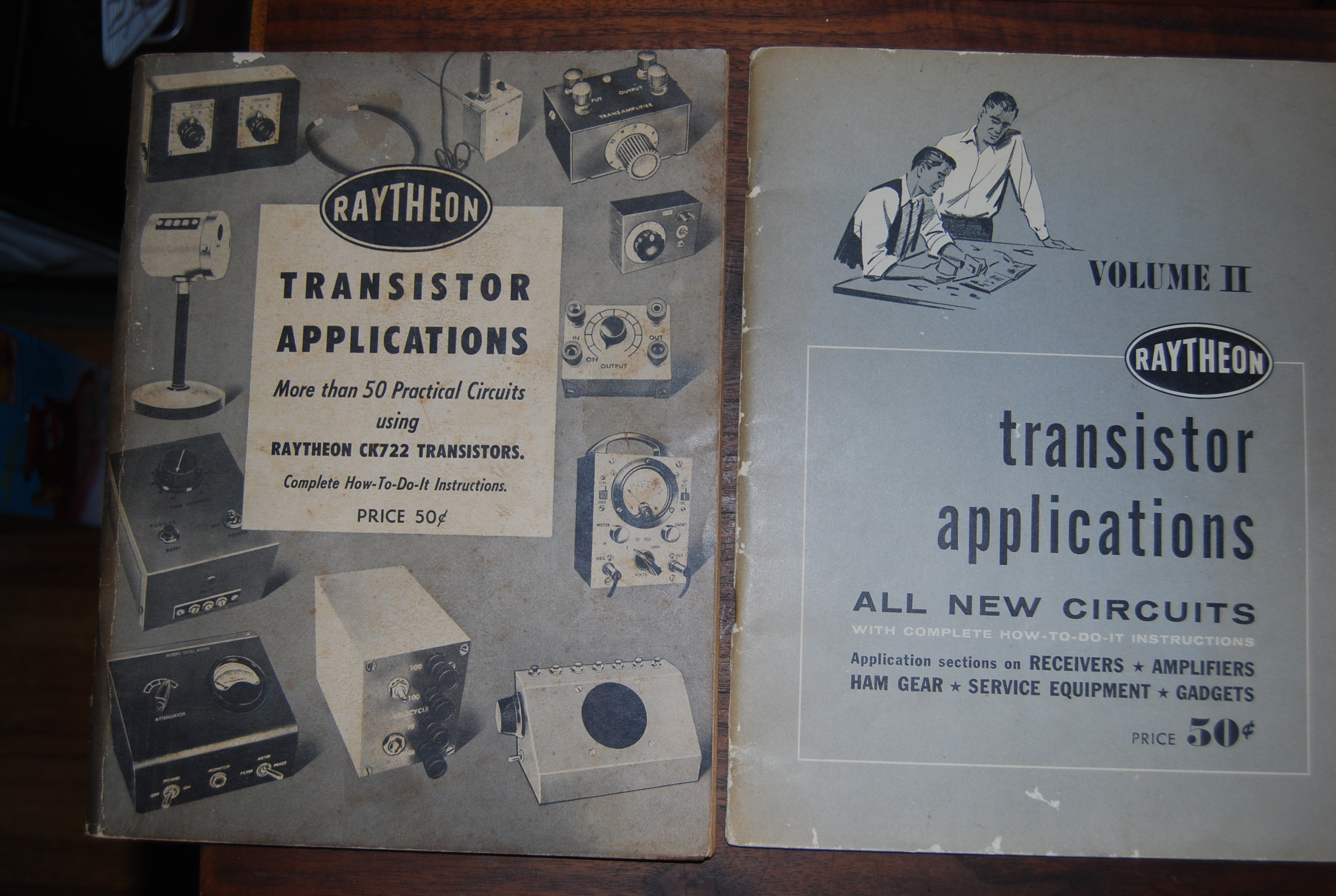 Raytheon Transistor Application Books Using CK721 and CK722